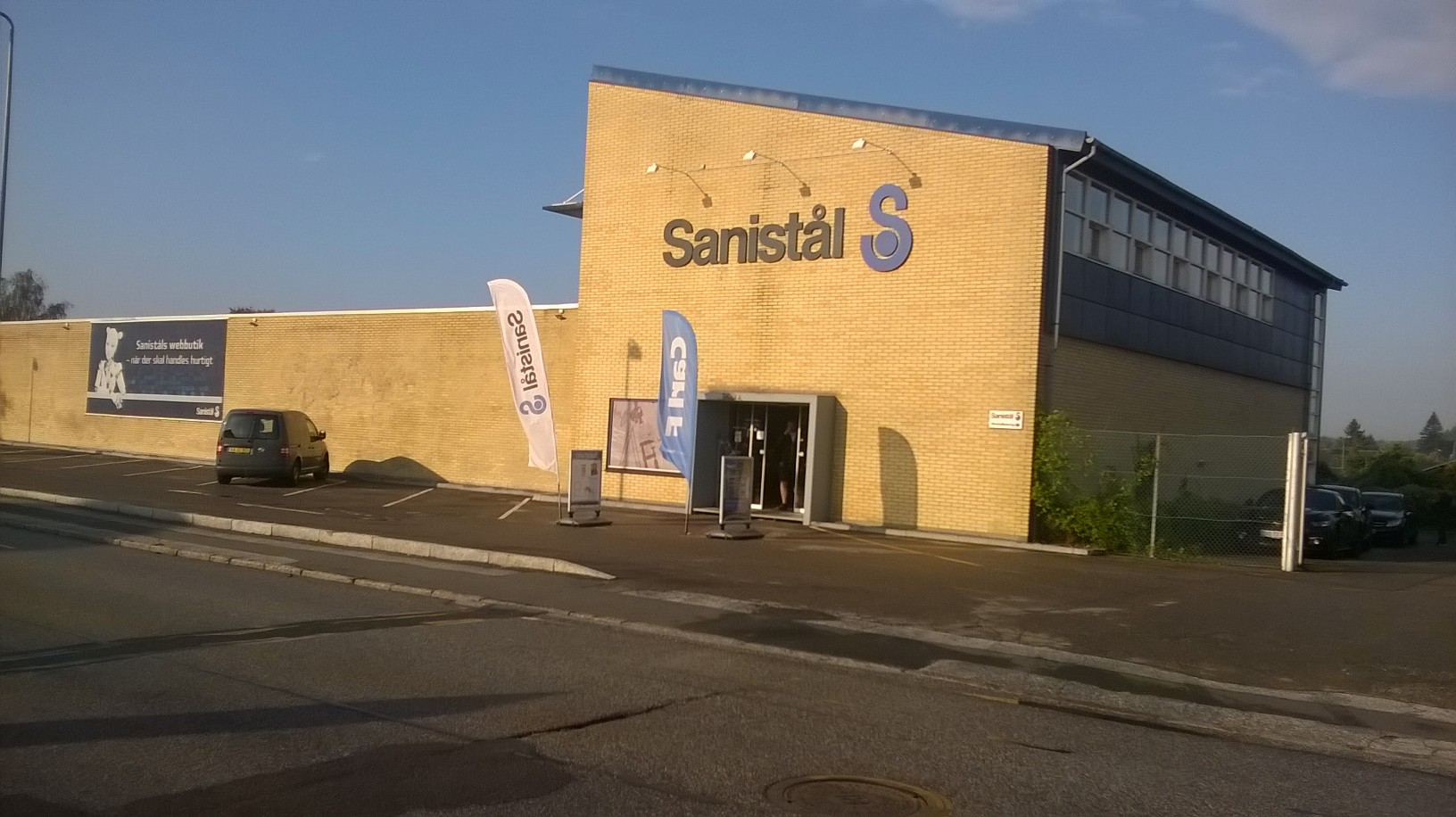 Det danske firma Saniståls afdeling i Næstved